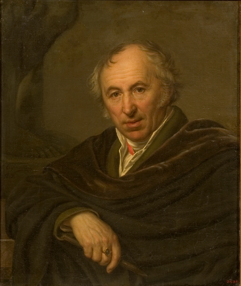 The portrait of sculptor Ivan Petrovich Martos, professor of Imperor's Academy of Arts (1754-1835)